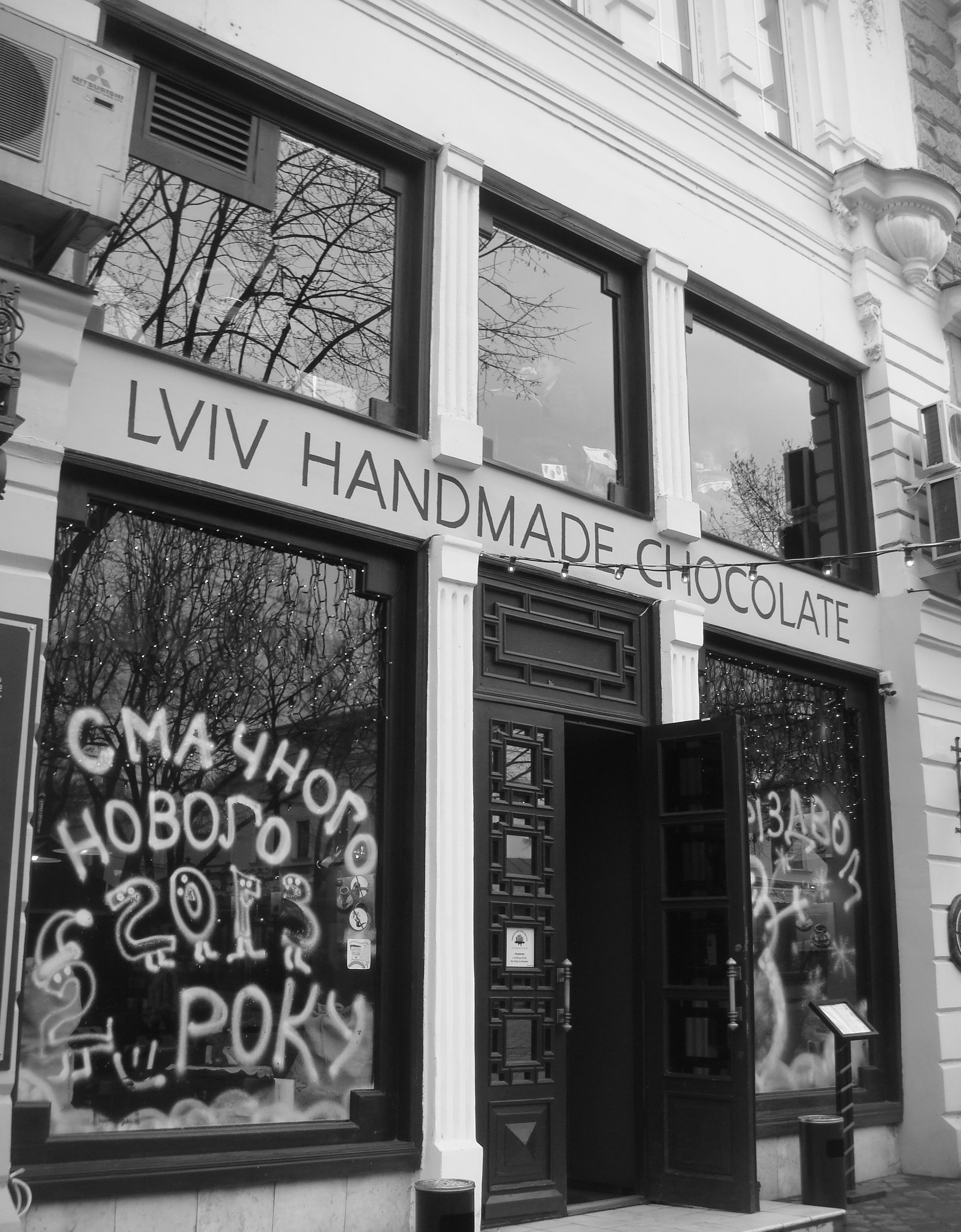 Exterior of former shop of Carl Faberge in Odessa. 33 Deribasovskaya Street, 2013